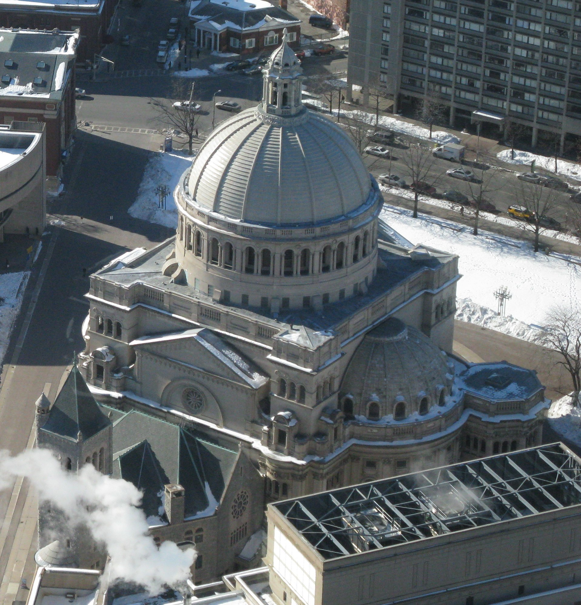 First Church of Christ, Scientist seen from Prudential Tower "Skywalk"